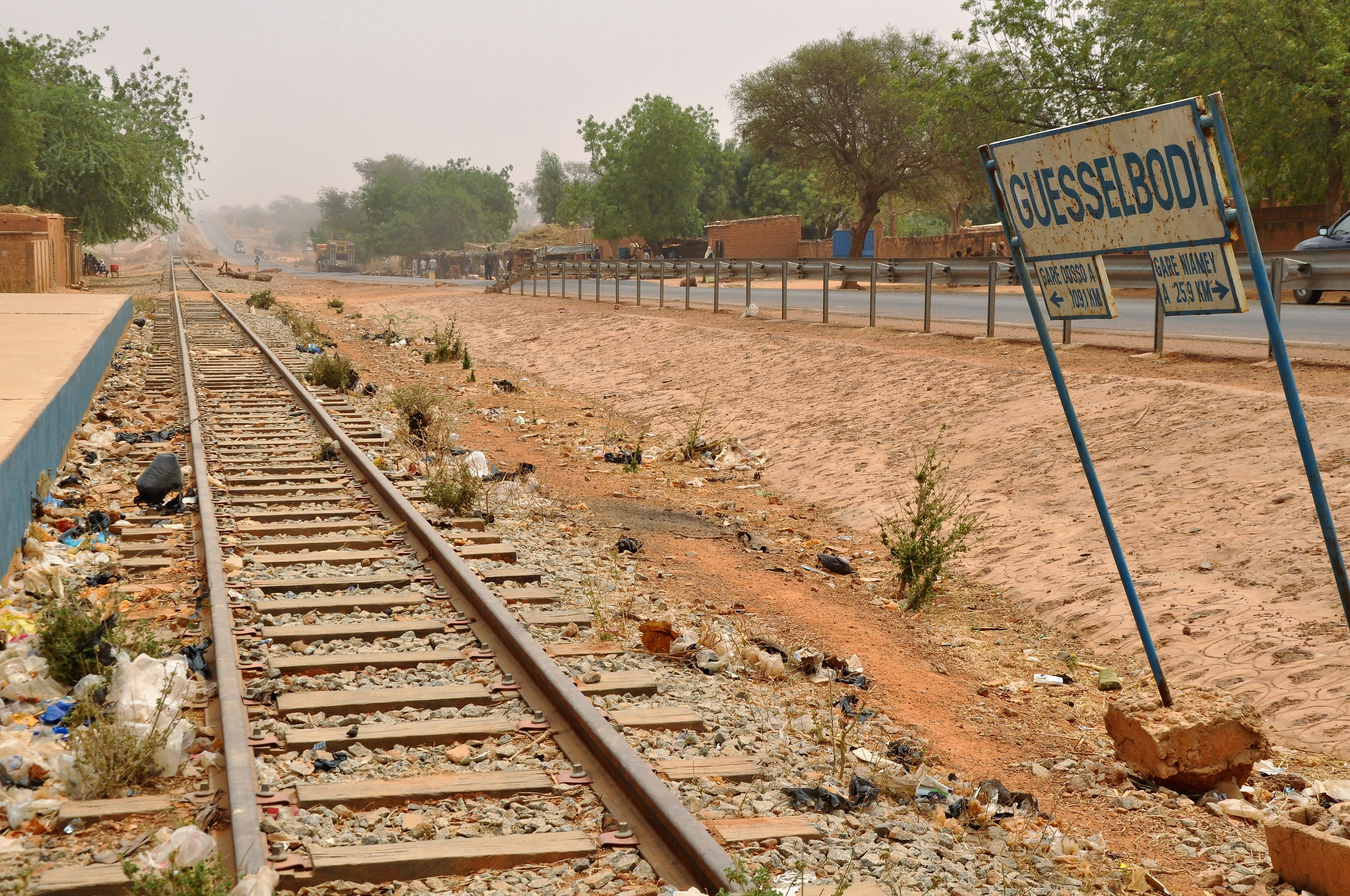 The railway station at Guesselbodi, on the 135 km Niamey-Dosso railway line, in Niger. This line was built from 2014 and inaugurated in 2016 but has never been used.